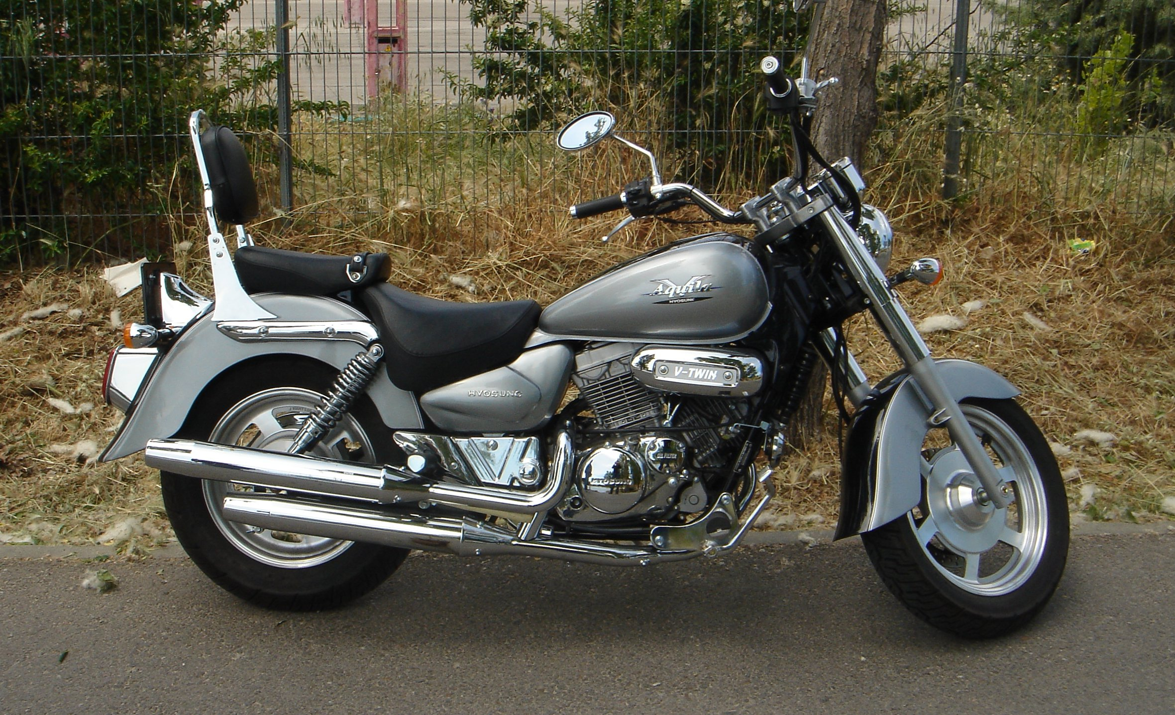 Hyosung Aquila GV 250 motorbike My own motorcicle. Taken by my girlfriend today (2006-05-20) on Tres Cantos - Madrid - Spain